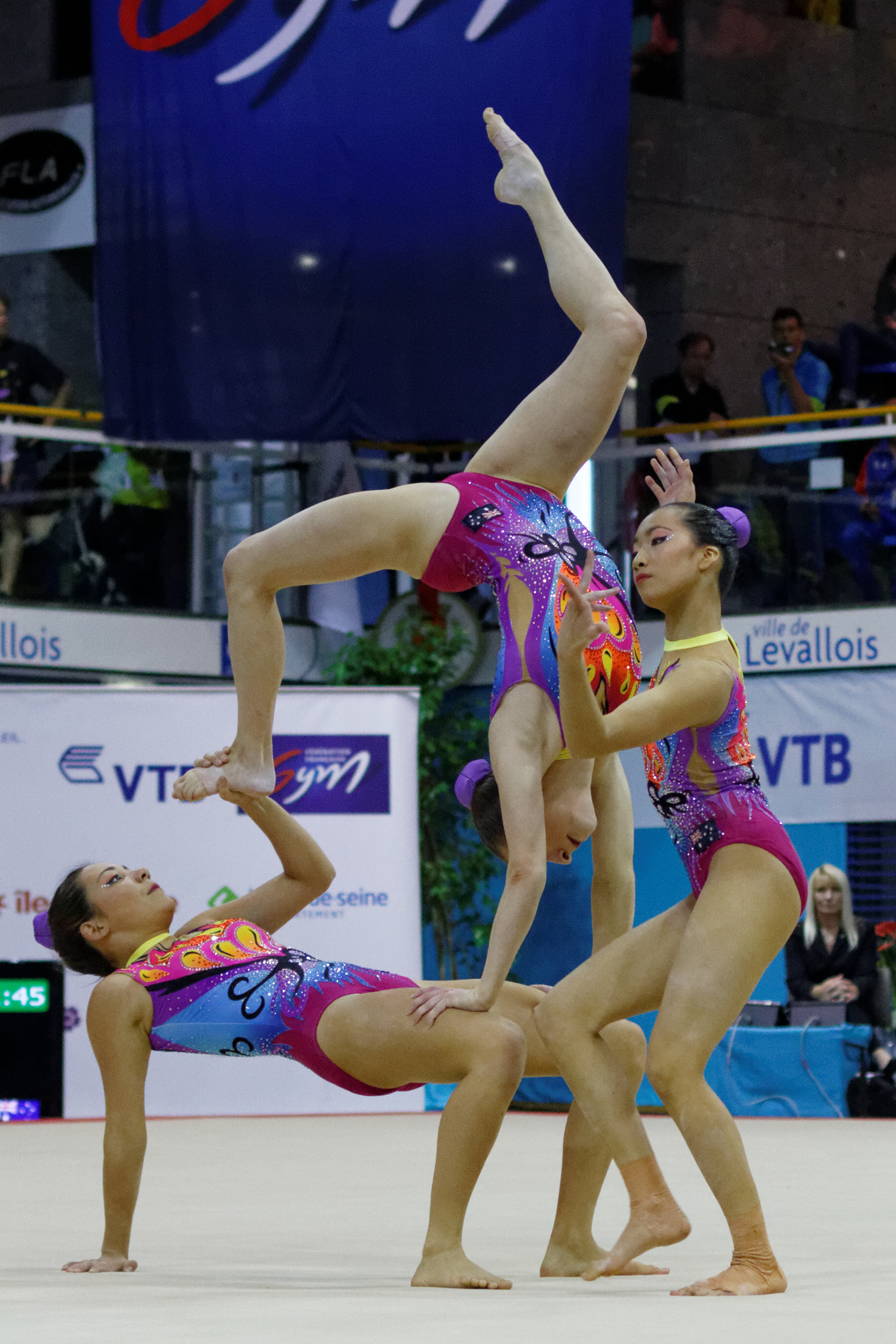 2014 Acrobatic Gymnastics World Championships, 10th-12 July, Levallois-Perret, France. Qualifications: women's group. Australia 1.